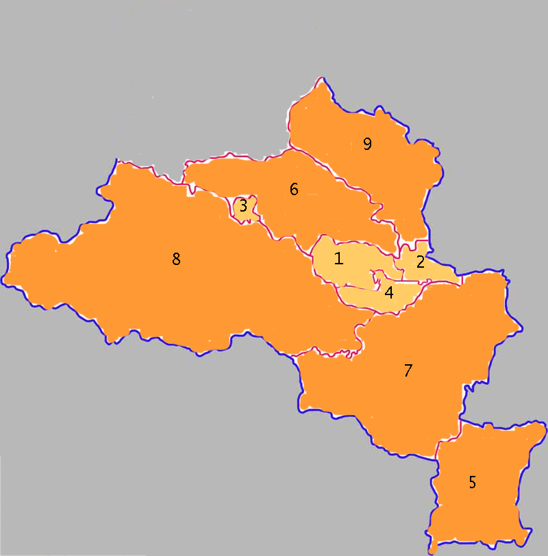 Municipalities of Pingdingshan city, China